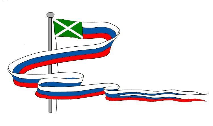 Pendants of the Federal Customs Service of Russia